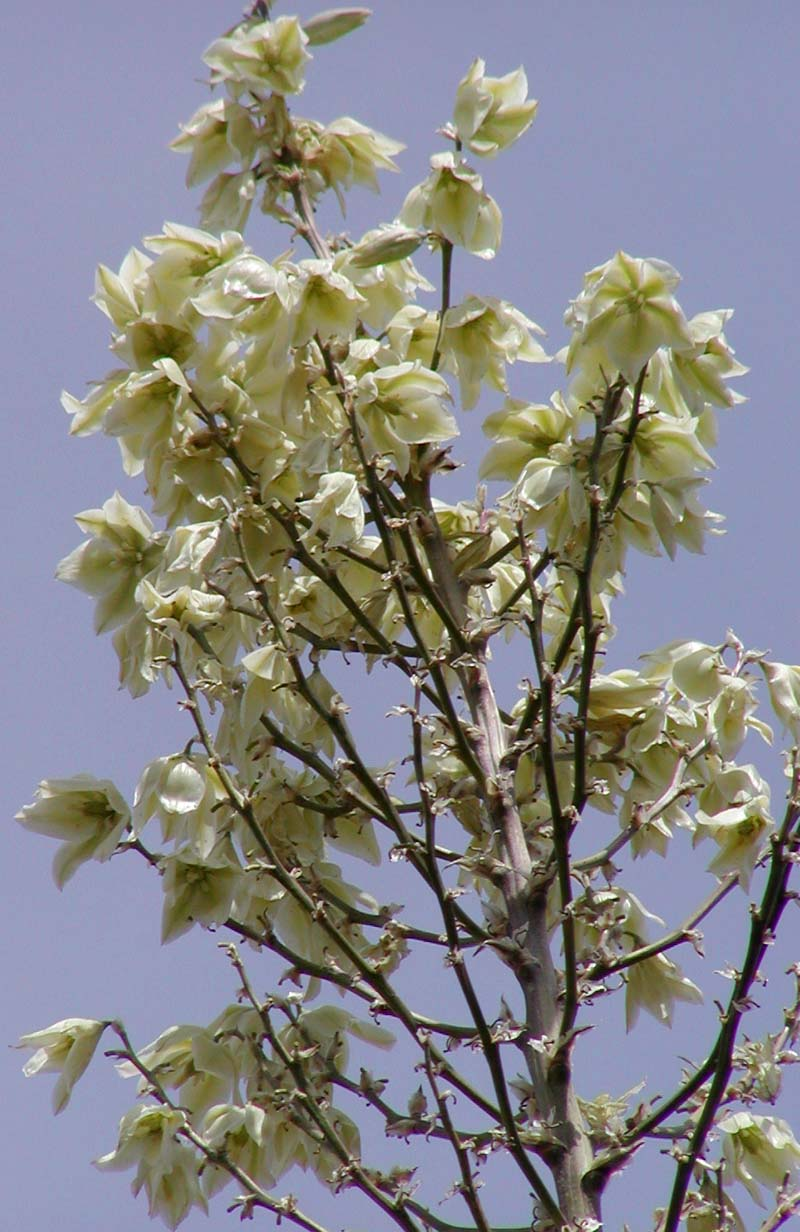 Photo of Yucca elata (soaptree yucca) flowers at the Desert Demonstration Garden in Las Vegas